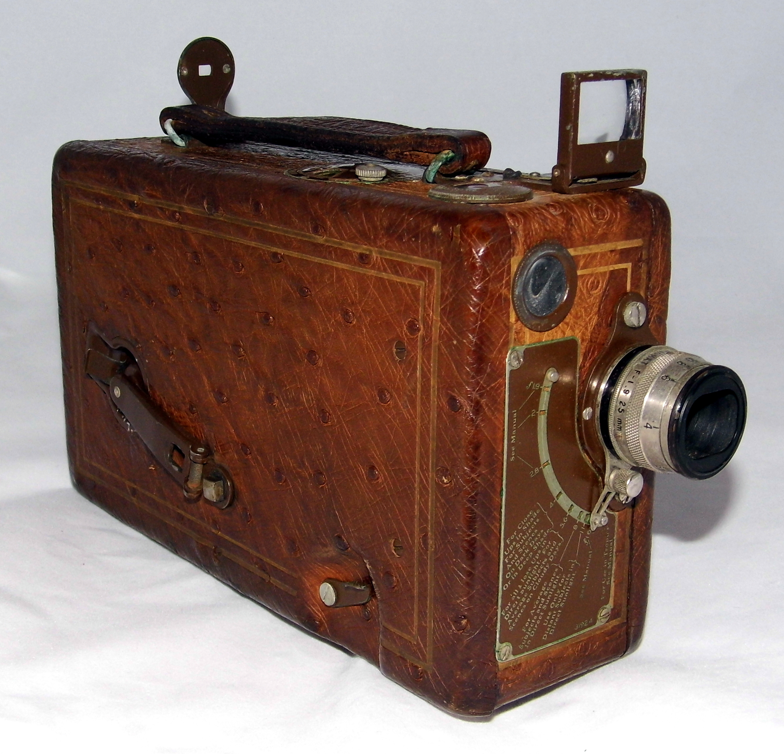 This is a relatively rare Cine-Kodak model with an ostrich skin covering. It came with a matching ostrich skin covered carrying case. It is likely that 500 or less units were ever produced. The basic Model B sold for 85 USD in the 1920s. You had to have been very well heeled to afford this special camera back then.